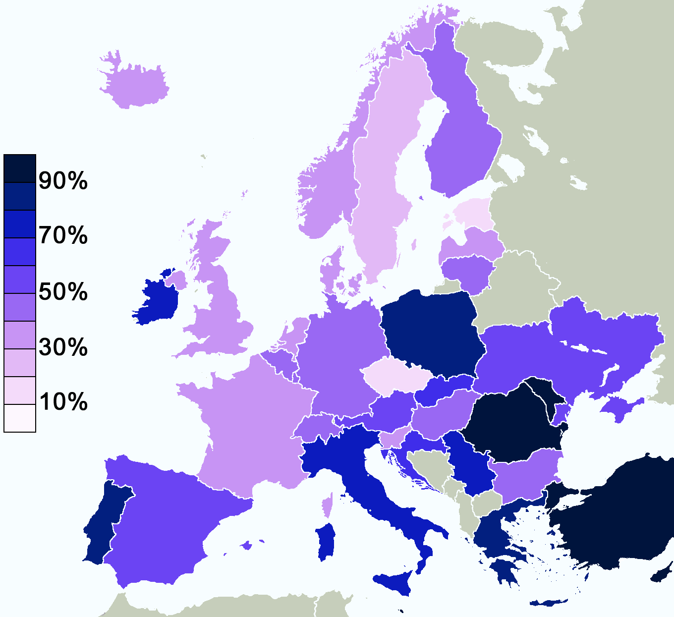 The map shows the results of an Eurobarometer poll conducted in 2005. This is the percentage of people in each country who answered "I believe there is a God". Grey countries were not included in the poll. See also Image:Europe-atheism-2005.png for percentage of people answering "I don't believe there is any sort of spirit, God or life force" in the same pool.